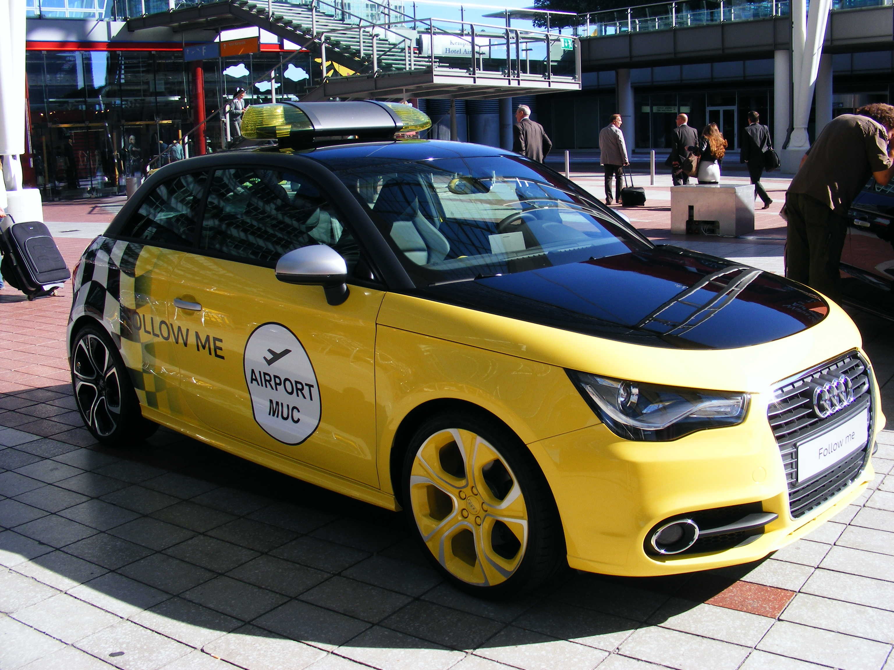 Audi A1 styled as a follow me car (guess fictional)